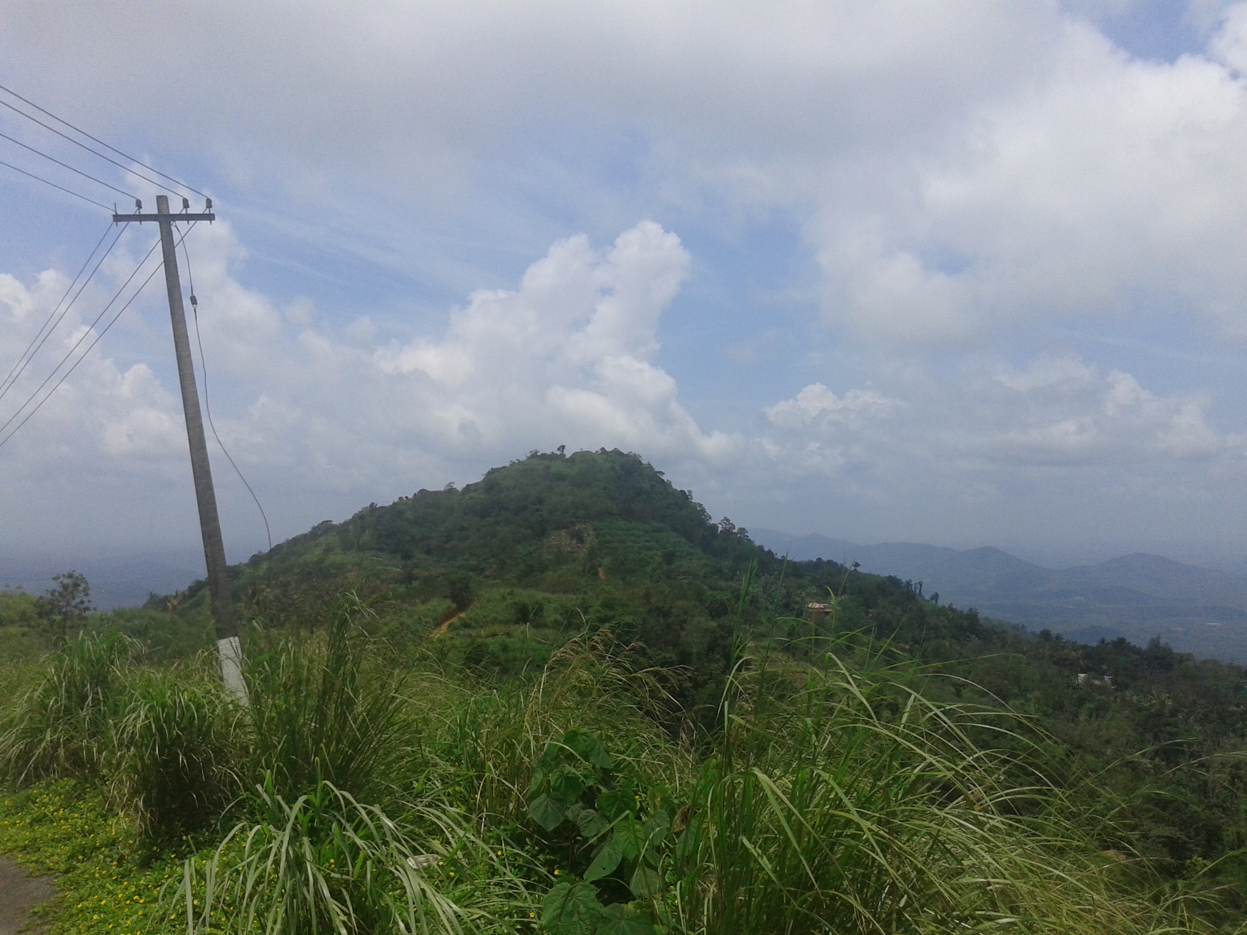 Elapeedika